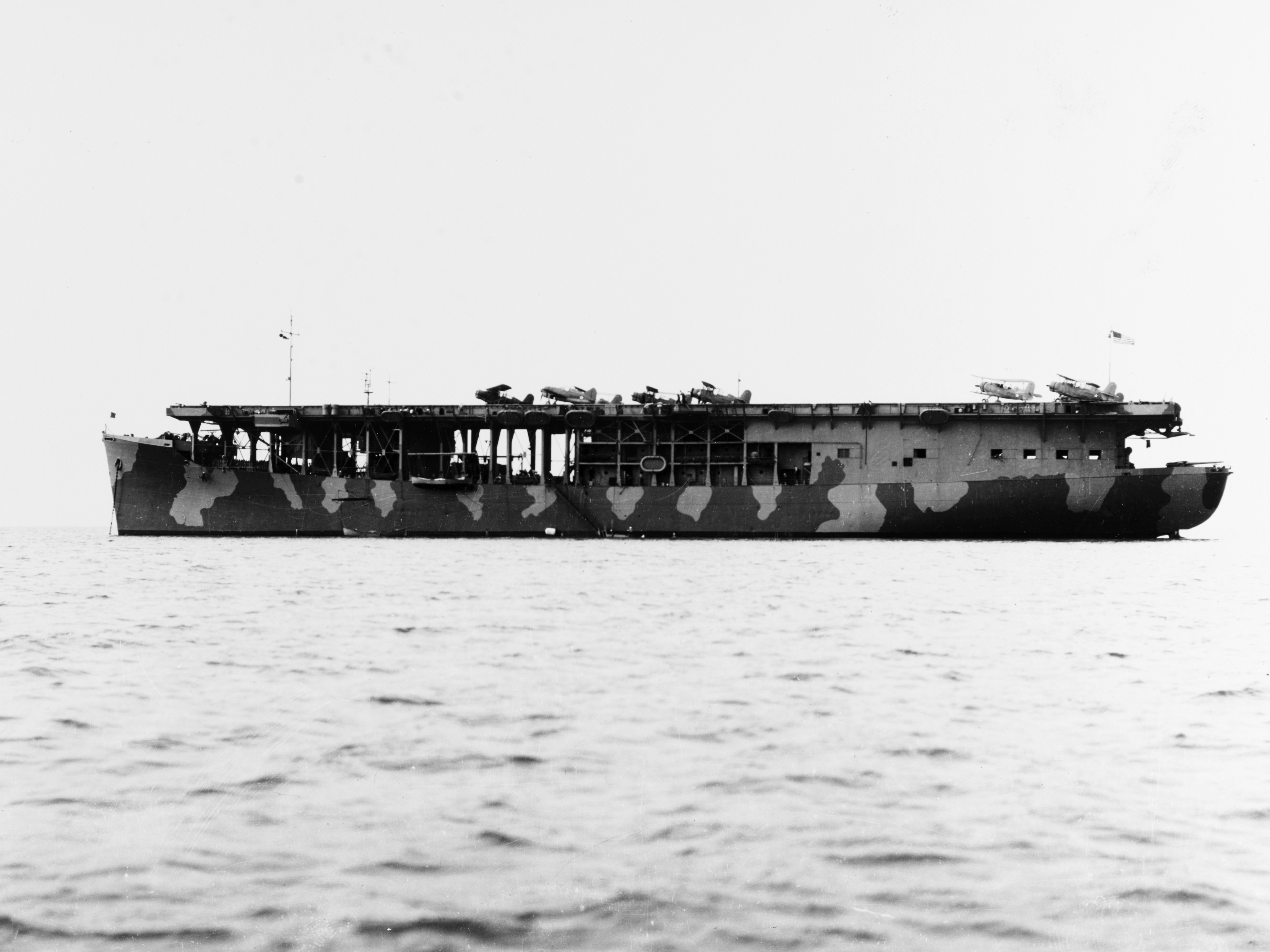 The U.S. Navy escort carrier USS Long Island (AVG-1), photographed in Measure 12 (Modified) camouflage, 10 November 1941. Planes on her flight deck include seven Curtiss SOC-3A scout observation types and one Brewster F2A fighter.